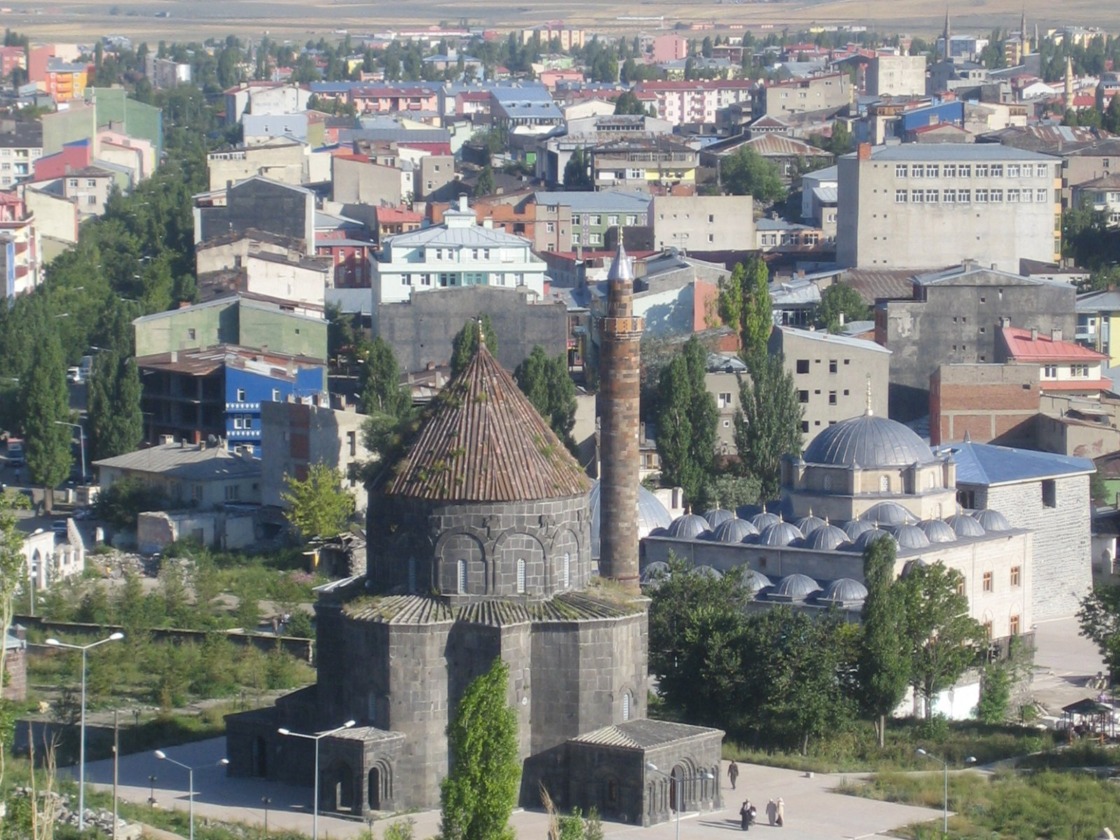 Kars, Former 12 Apostles Church, seen from the citadelle.